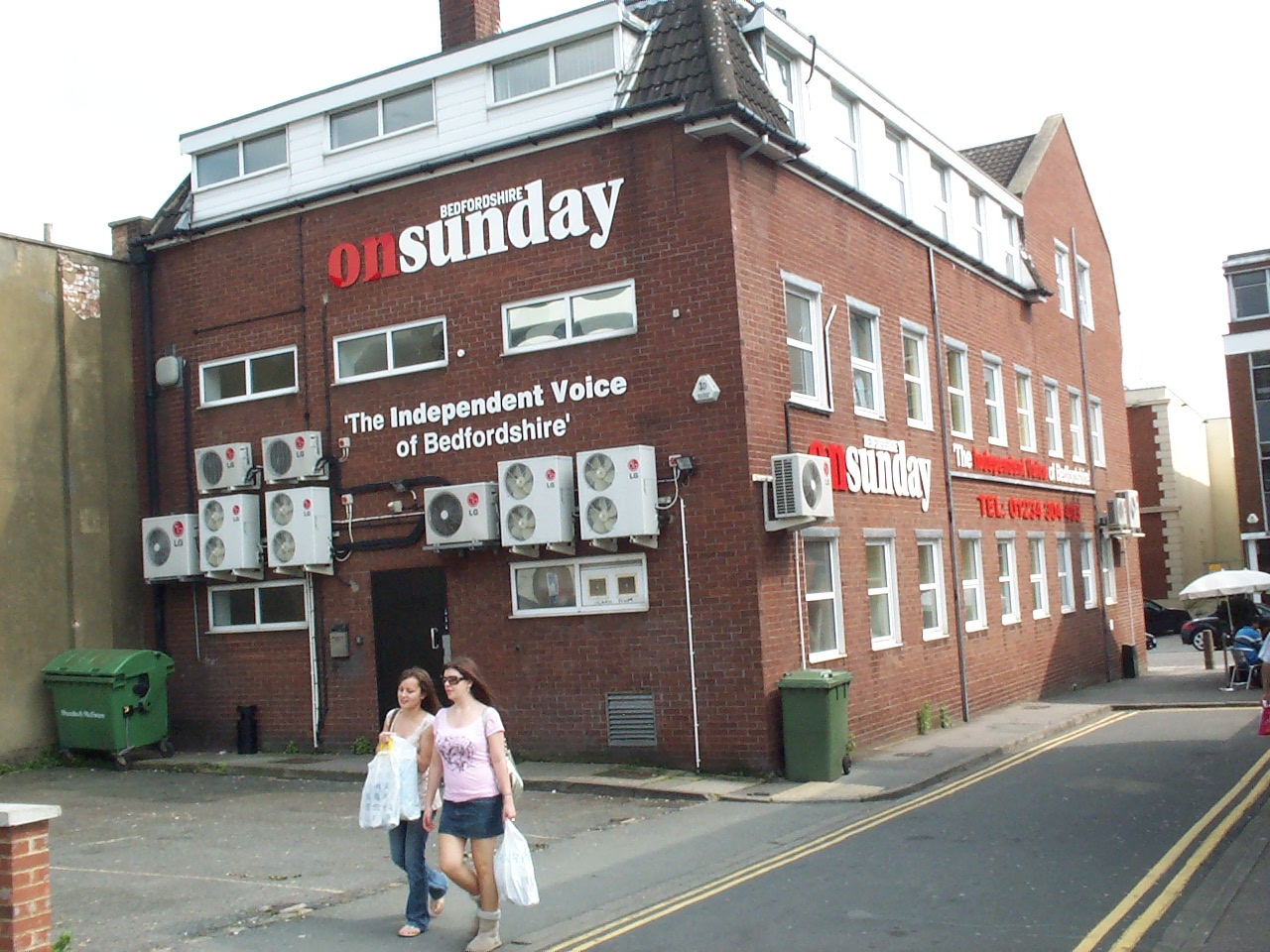 Offices of local newspaper Bedfordshire on Sunday in Bedford. View from the back, hence all the extractor fans.